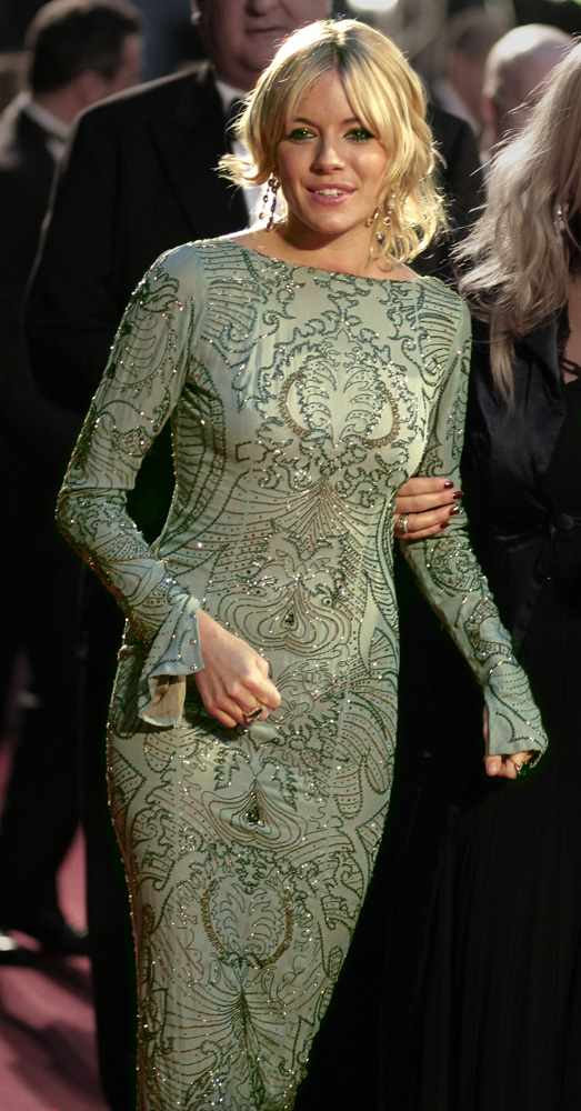 Sienna Miller at the 2007 BAFTAs